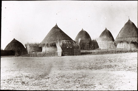 Shrine of Nyikang at Fenyikang, 1910. South Sudan